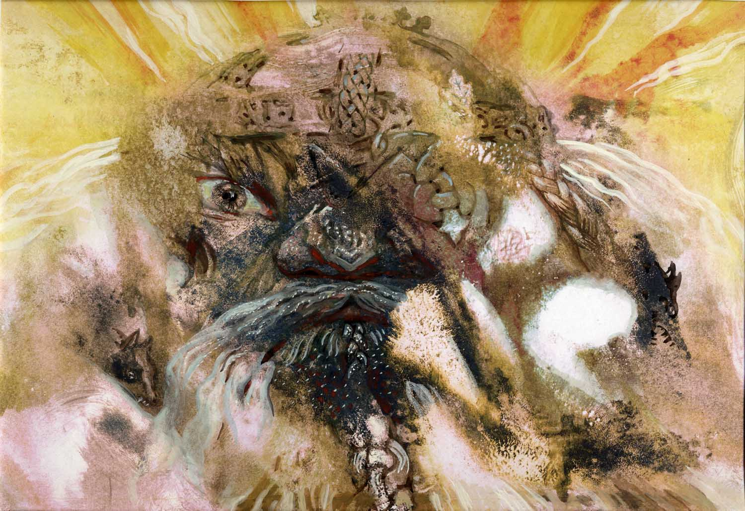 Odin